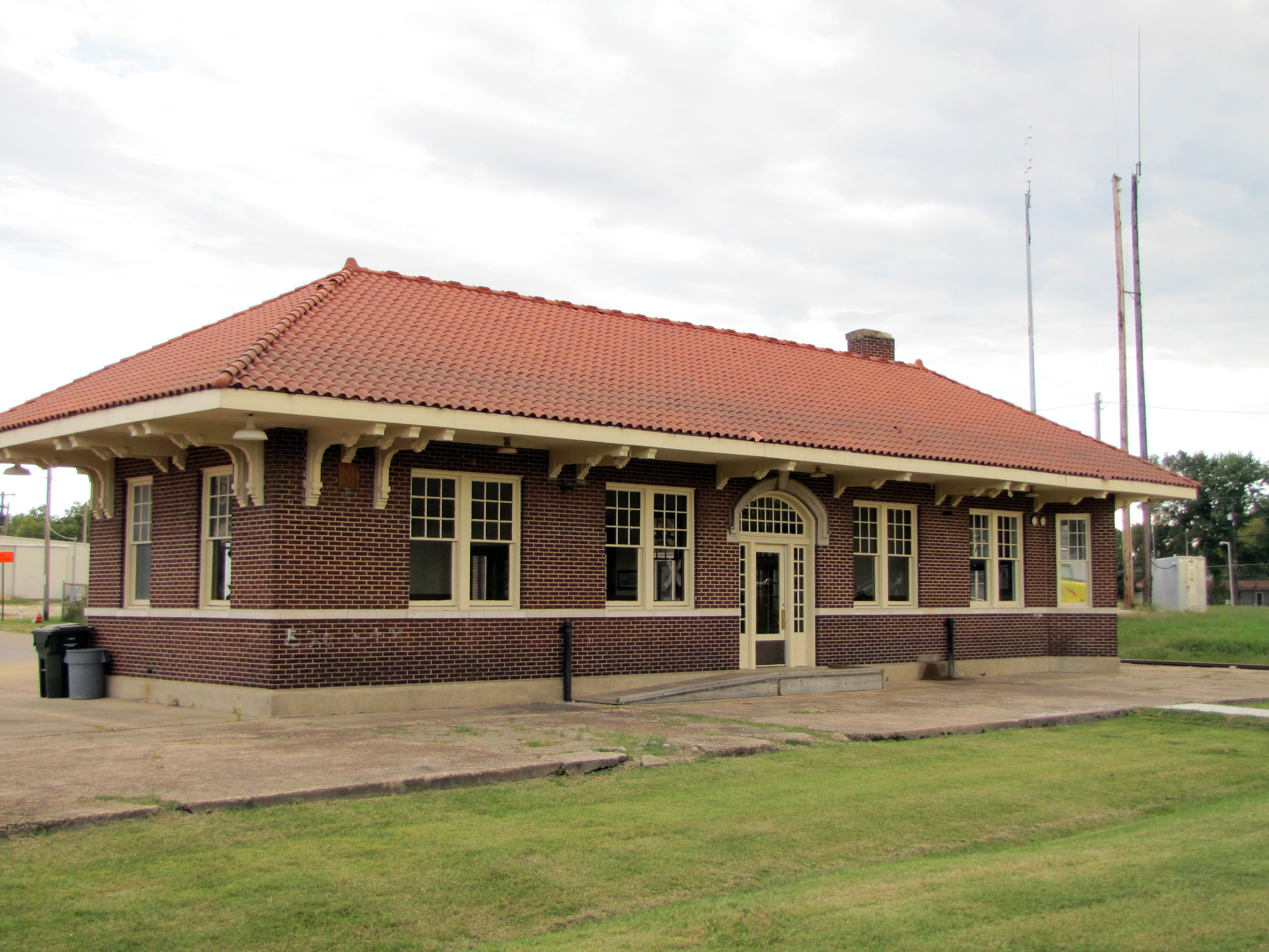 McKenzie Depot, 85 E. Bruce St. McKenzie